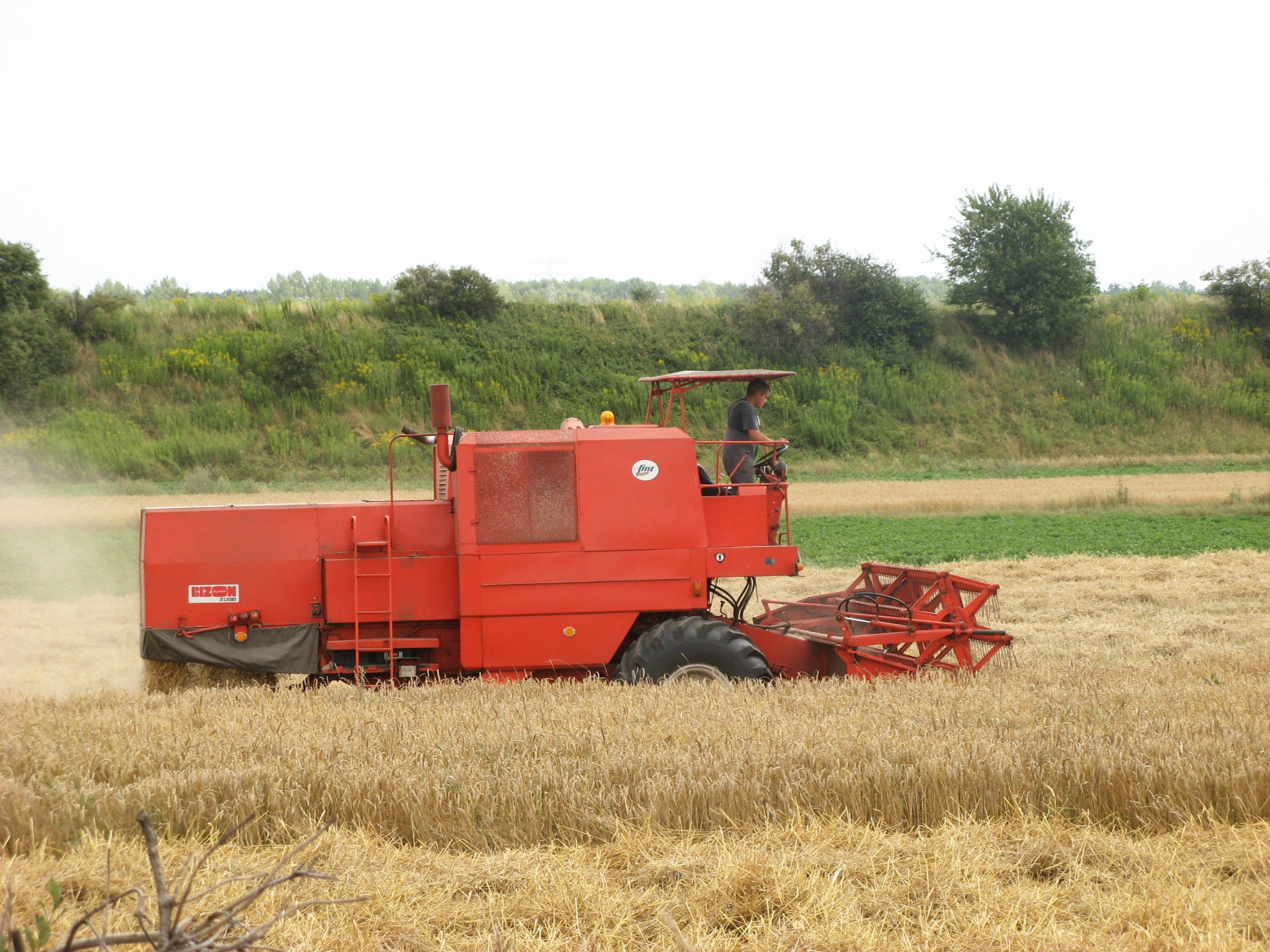 A combine Bizon harvesting wheat (Polish produced). A field in Siemianowice Śląskie, Poland.